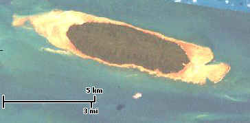 NASA Landsat Natural Color Image of Turnagain Island, Torres Strait Island, Queensland, Australia, viewed by ESRI Landsat Viewer (